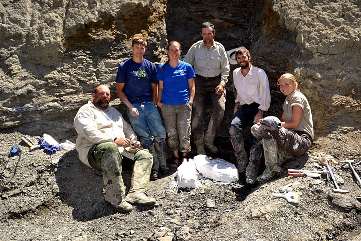 The U.S. Fish & Wildlife Service team that finished the excavation work on Saturday, July 9th, 2011 poses with Pat Druckenmiller at the site (left to right: Paul Pallas, Marcus Hockett, Erin Clark, Dan Harrell, Pat Druckenmiller, and Jessica Larson). Credit: Marcus Hockett USFWS